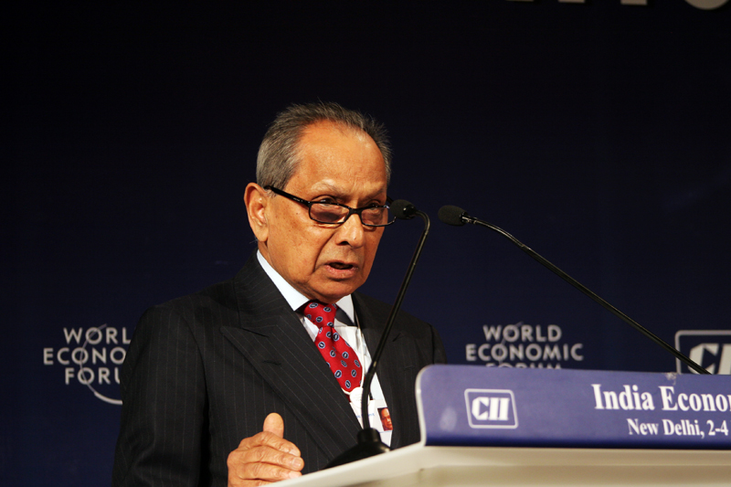 Nand Khemka, chairman of the SUN Group, speaking at the India Economic Summit on 4 December 2007 in the closing session chaired by Christopher J. Graves.